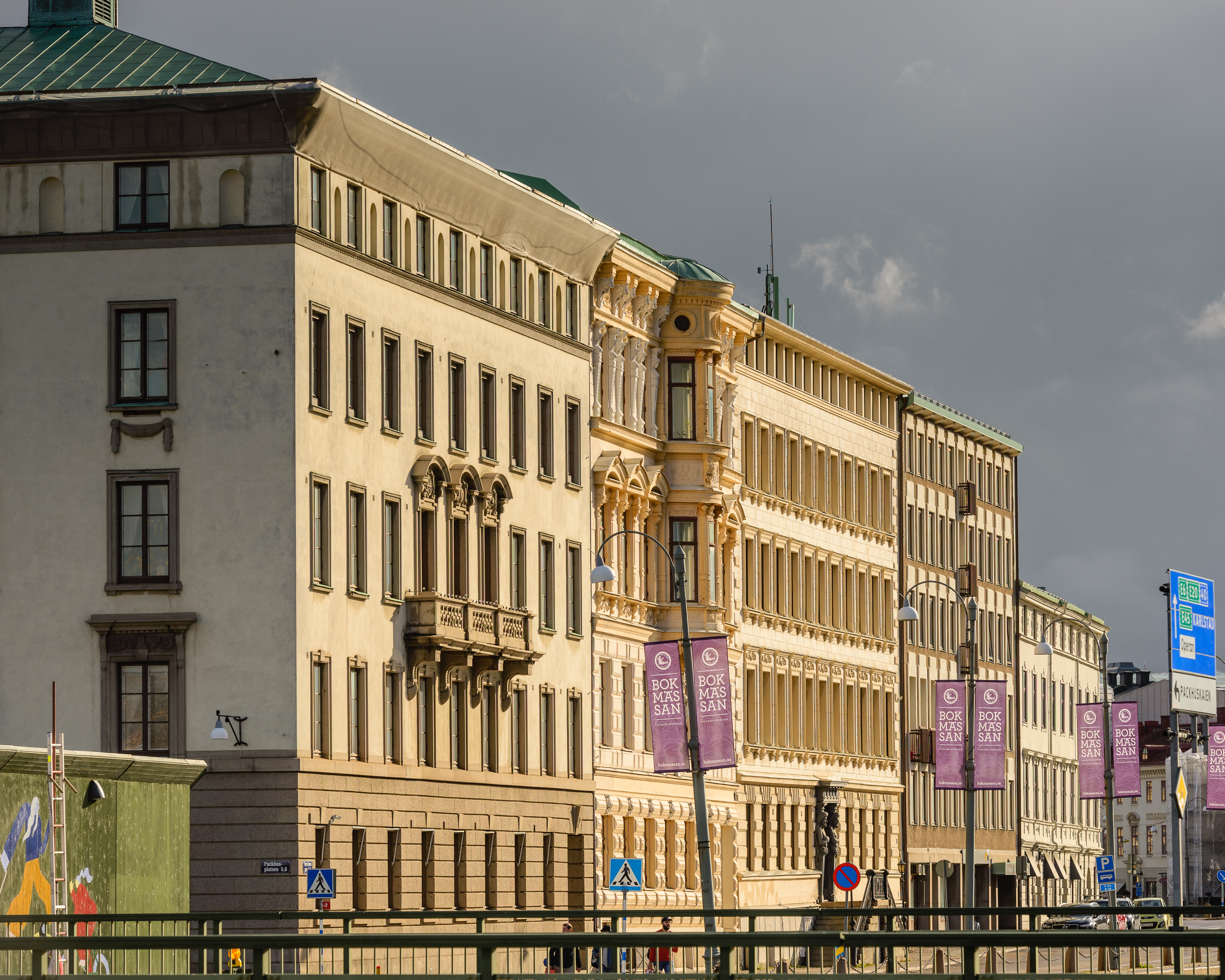 Buildings on the street Norra Hamngatan 2-10 in Gothenburg, Sweden.